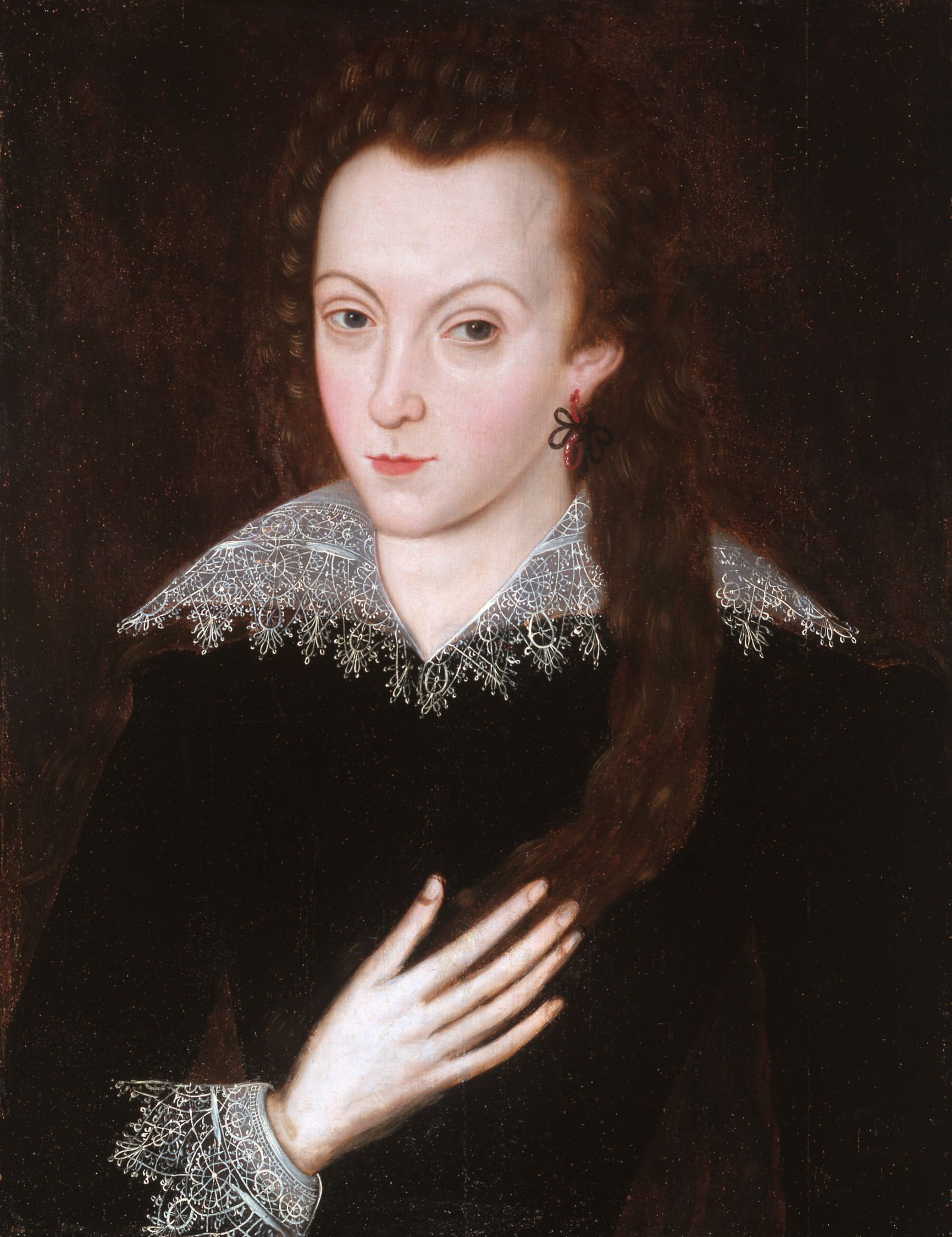 Portrait of Henry Wriothesley, 3rd Earl of Southampton (1573-1624)